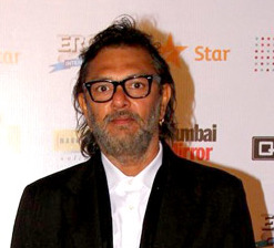 Rakeysh Omprakash Mehra at the 17th Mumbai Film Festival (MFF)